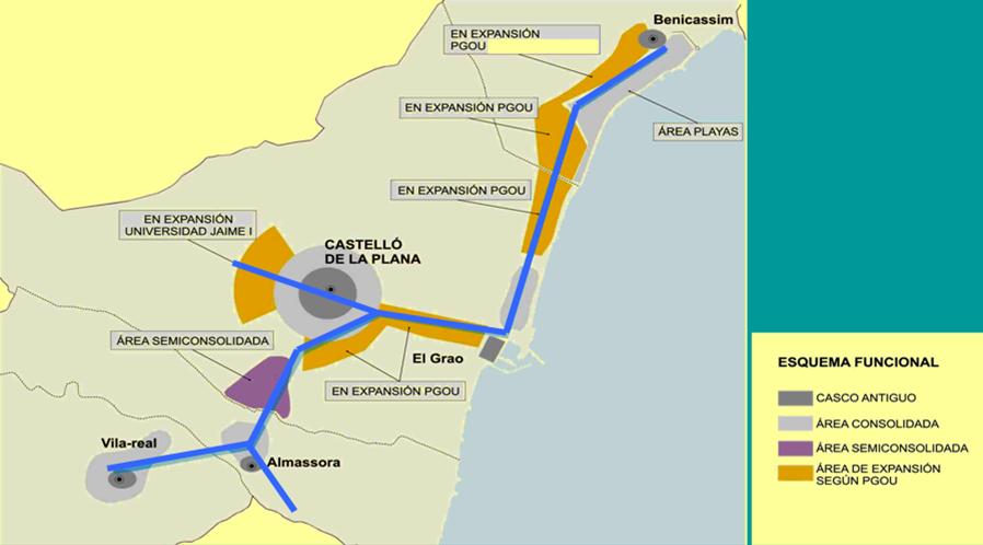 castellon map